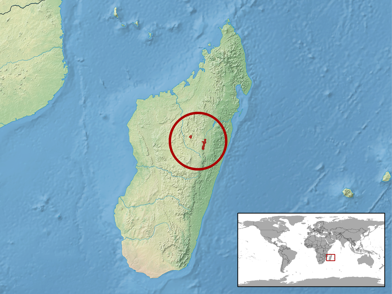 geographic distribution of Calumma globifer